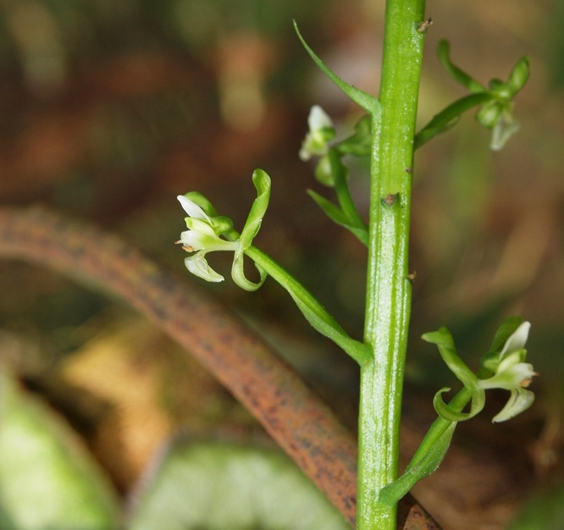 Picture of Baskervilla colombiana from Cordillera de los Andes